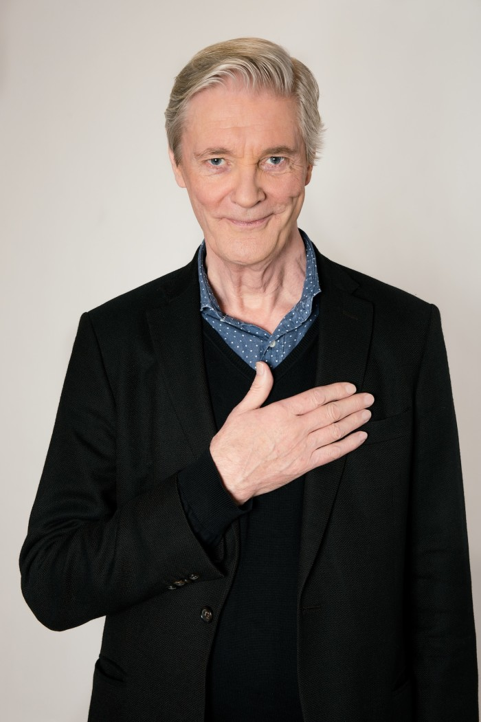 Swedish actor Claes Månsson in a campaign for Hjärt-Lungfonden, 2014.